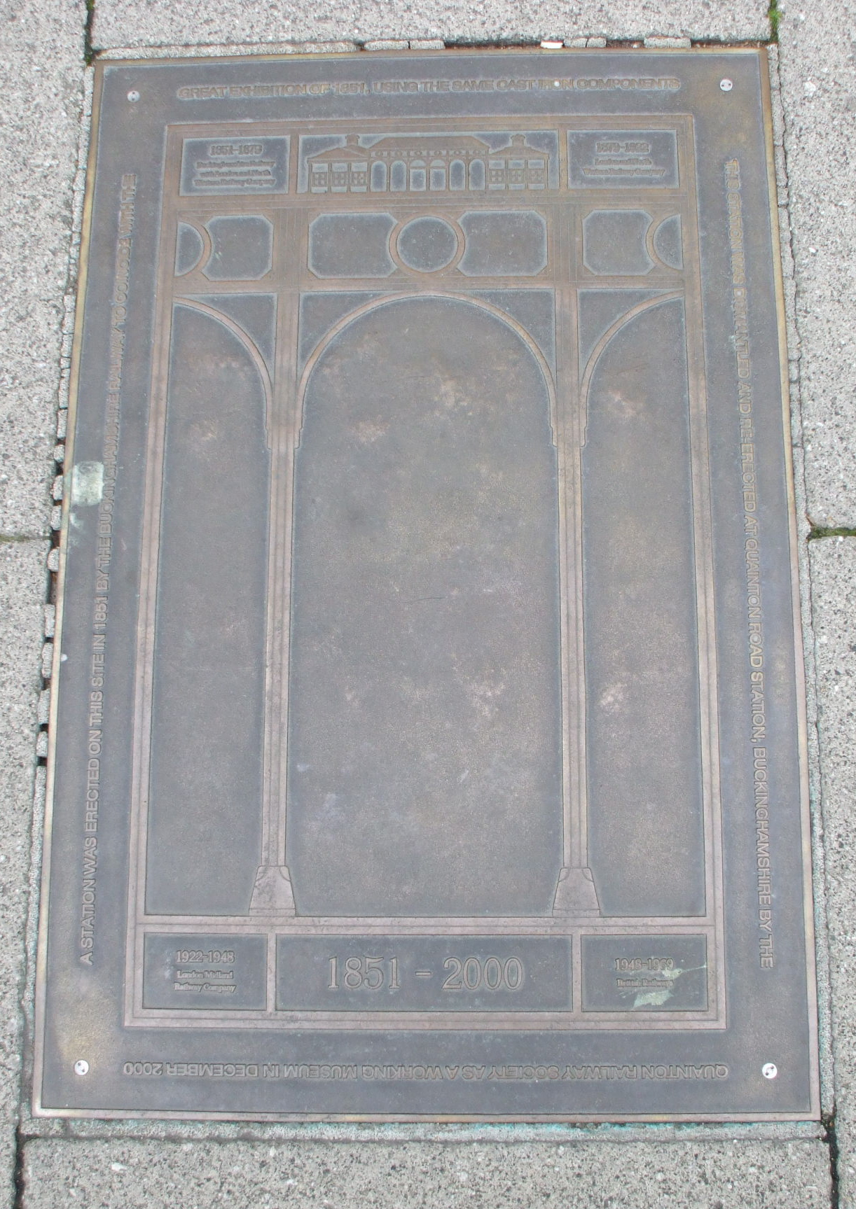 Plaque on the site of Rewley Road station, Oxford. Text: "A station was erected on this site in 1851 by the Buckinghamshire Railway to coincide with the Great Exhibition of 1851, using the same cast iron components. This station was dismantled at re-erected at Quainton Road Station, Buckinghamshire by the Quainton Railway Society as a working museum in December 2000".